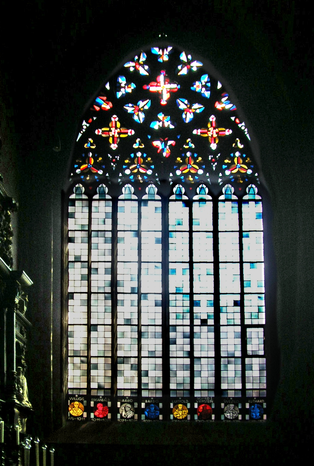 Gothic stained-glass window in Mainz Cathedral